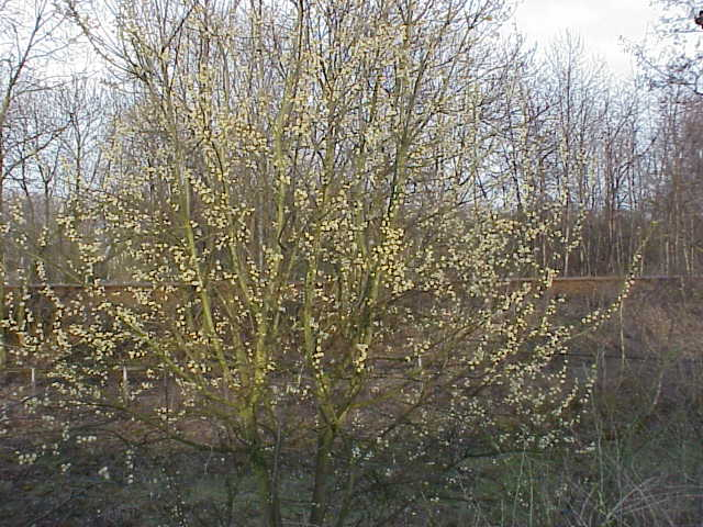 Species: Salix caprea Family: Salicaceae Image No. 10